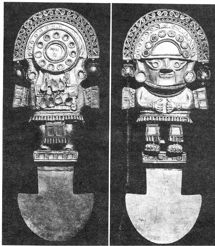 Tumi knife or ax picture, Lambayeque, Ancient Peruvian Culture, 1200 - 900 B.C.